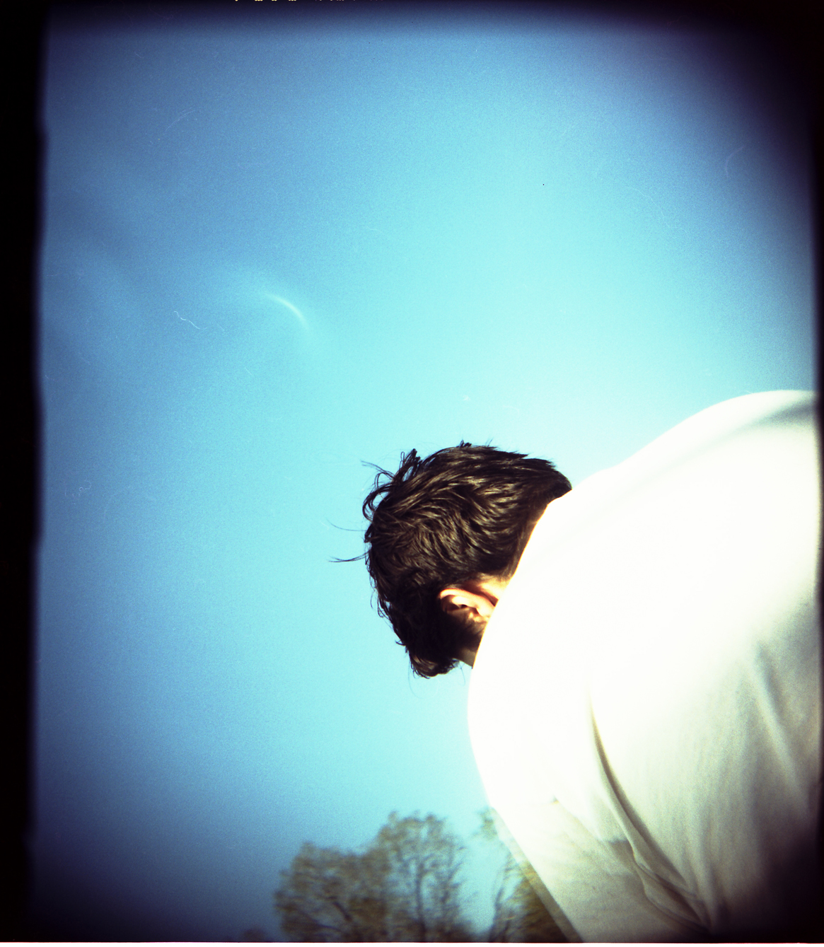 Sample photograph from a Holga camera showing vignetting and colour saturation